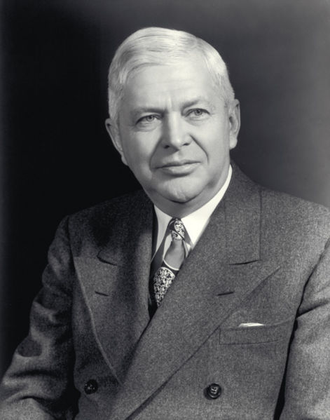 Charles E. Wilson's official GM executive photo, circa 1948